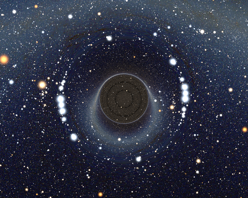 Wormhole corresponding to the maximal analytic extension of the Reissner Nordstrom metric. What is inside the hole is another universe that lies within the past lightcone of the observer and that is consequently unreachable, even when one enters into the hole.